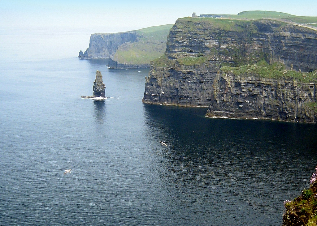 Cliffs of Moher